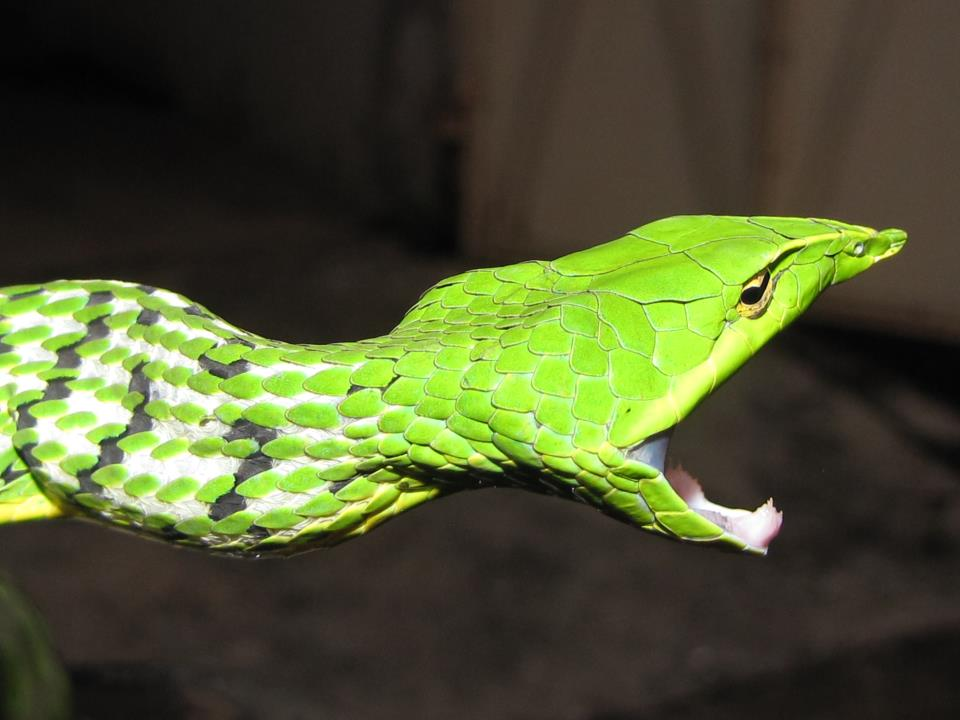 The Common Vine Snake ( Ahahetulla nasuta) exhibiting threat display